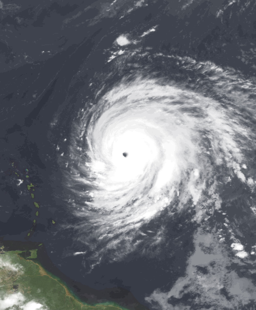 Hurricane Igor at peak intensity on September 15th, 2010